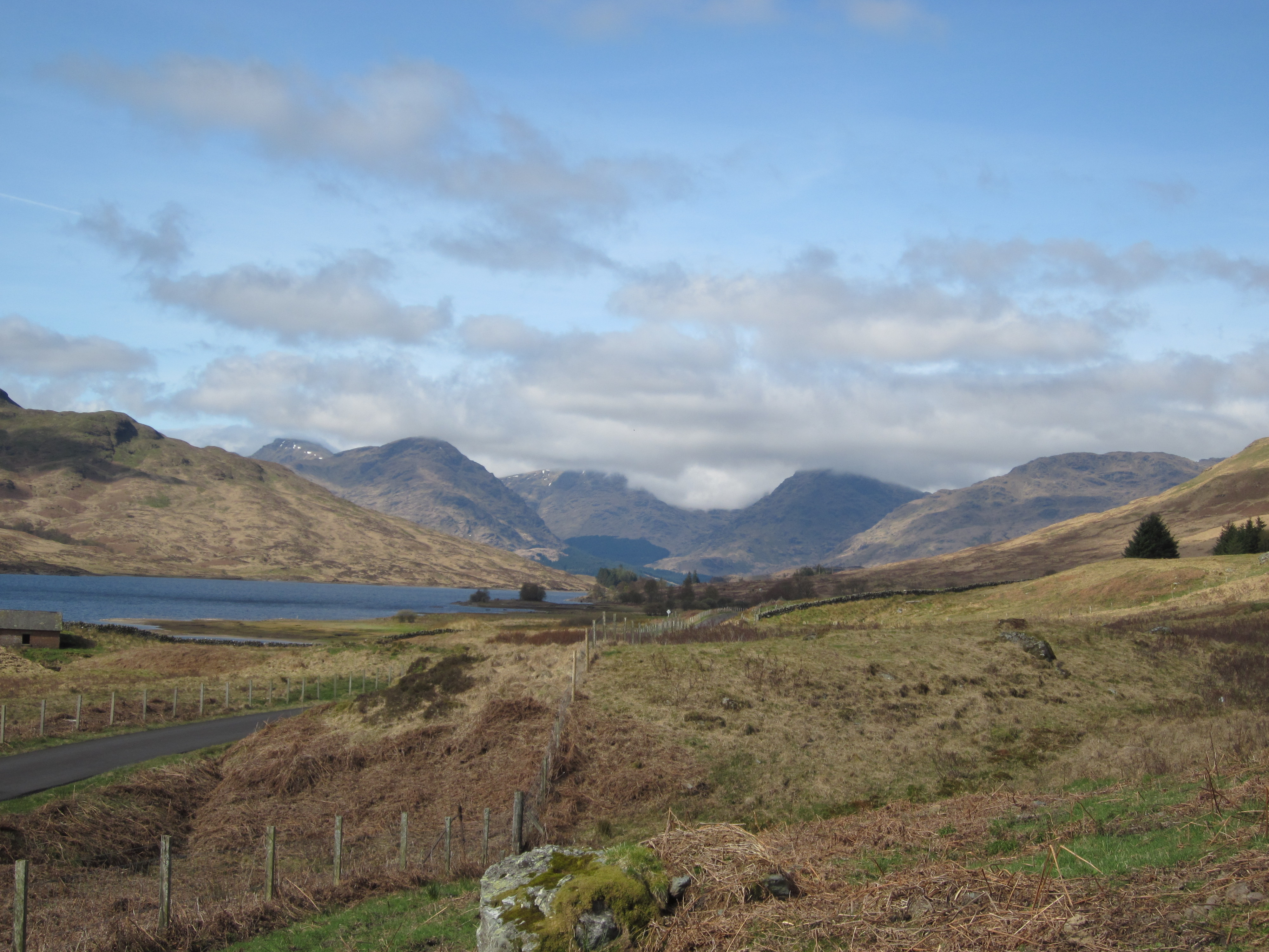 On the East side of Loch Lomond, looking towards Arrochar.